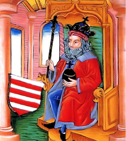 Otto V of Bavaria